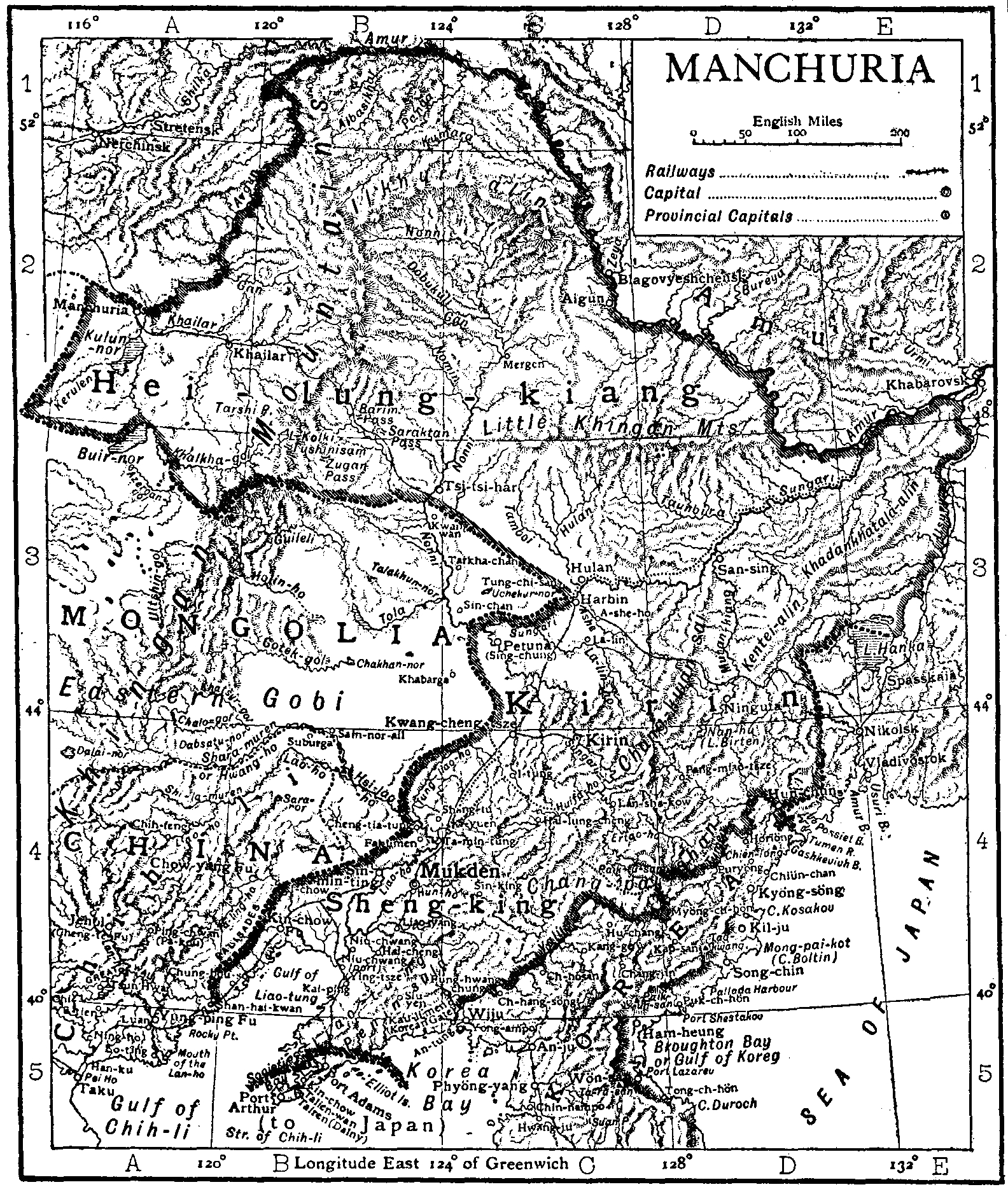 A map of Manchuria and the surrounding area, depicting the political and geographic situation of 1911.